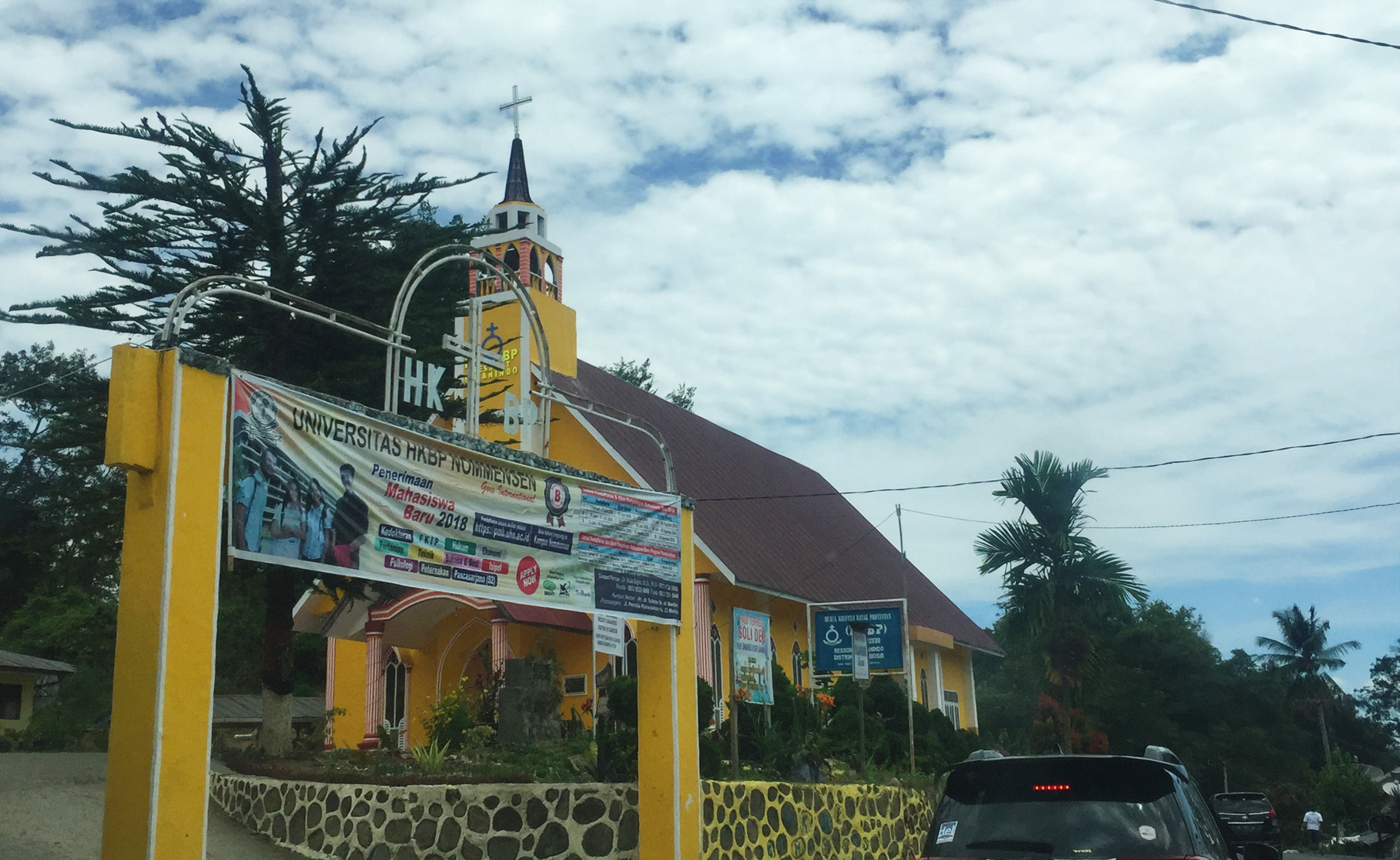 HKBP Simanindo, Church in Simanindo, Samosir